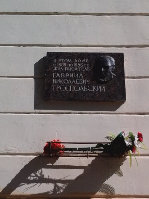 Troepolsky memorial plague in Voronezh